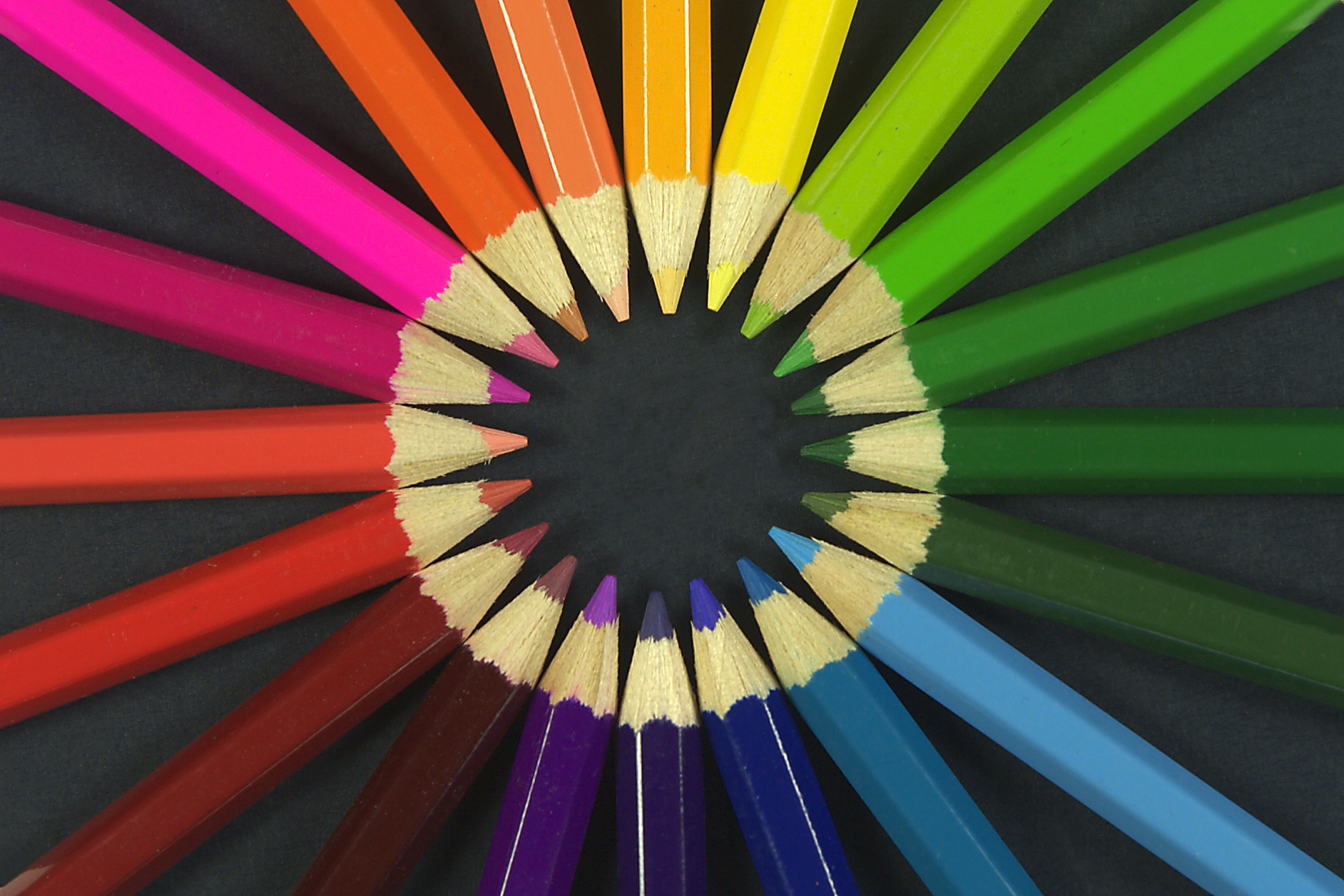 Colouring pencils